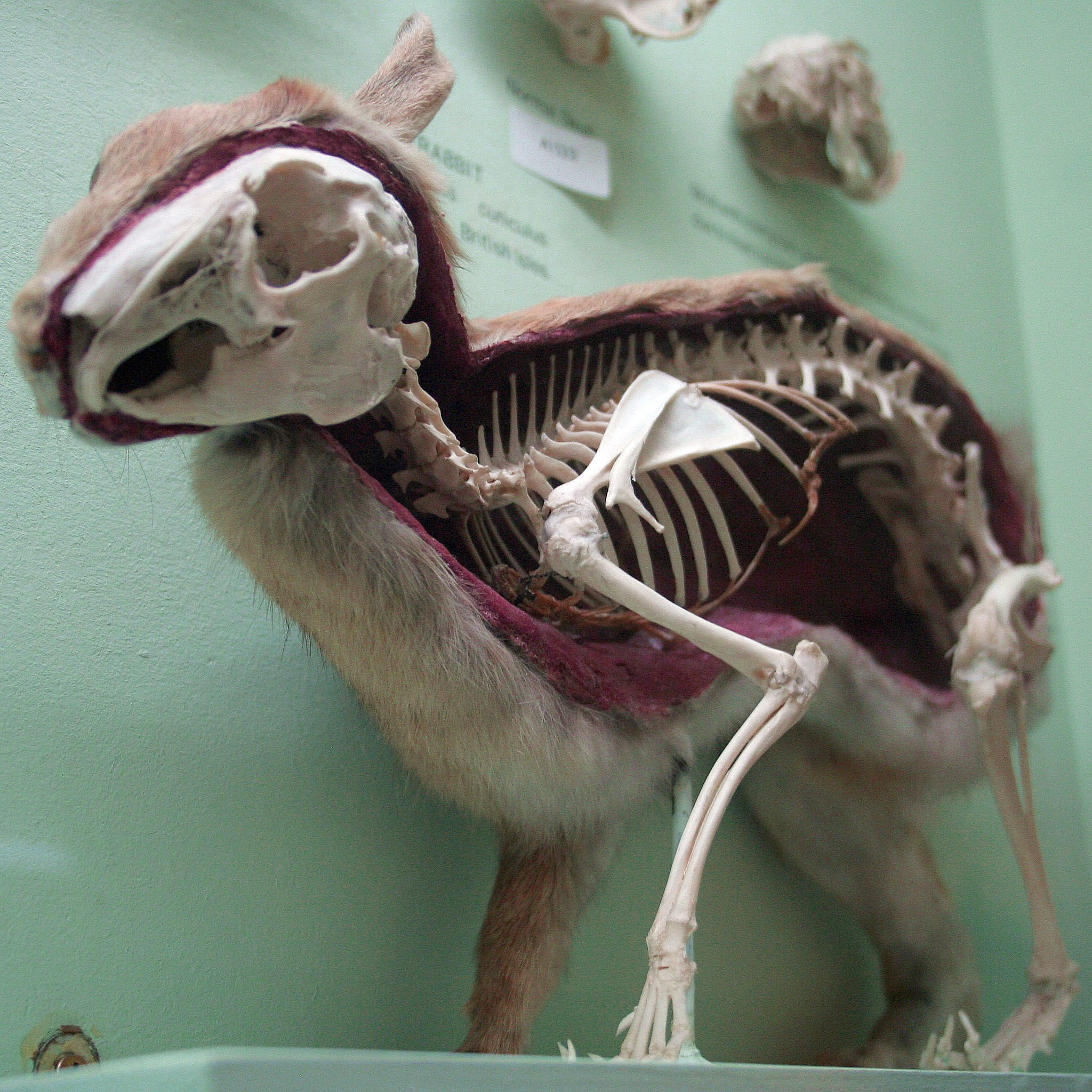 A preserved rabbit showing how the skeleton fits inside its skin, at the Horniman Museum.